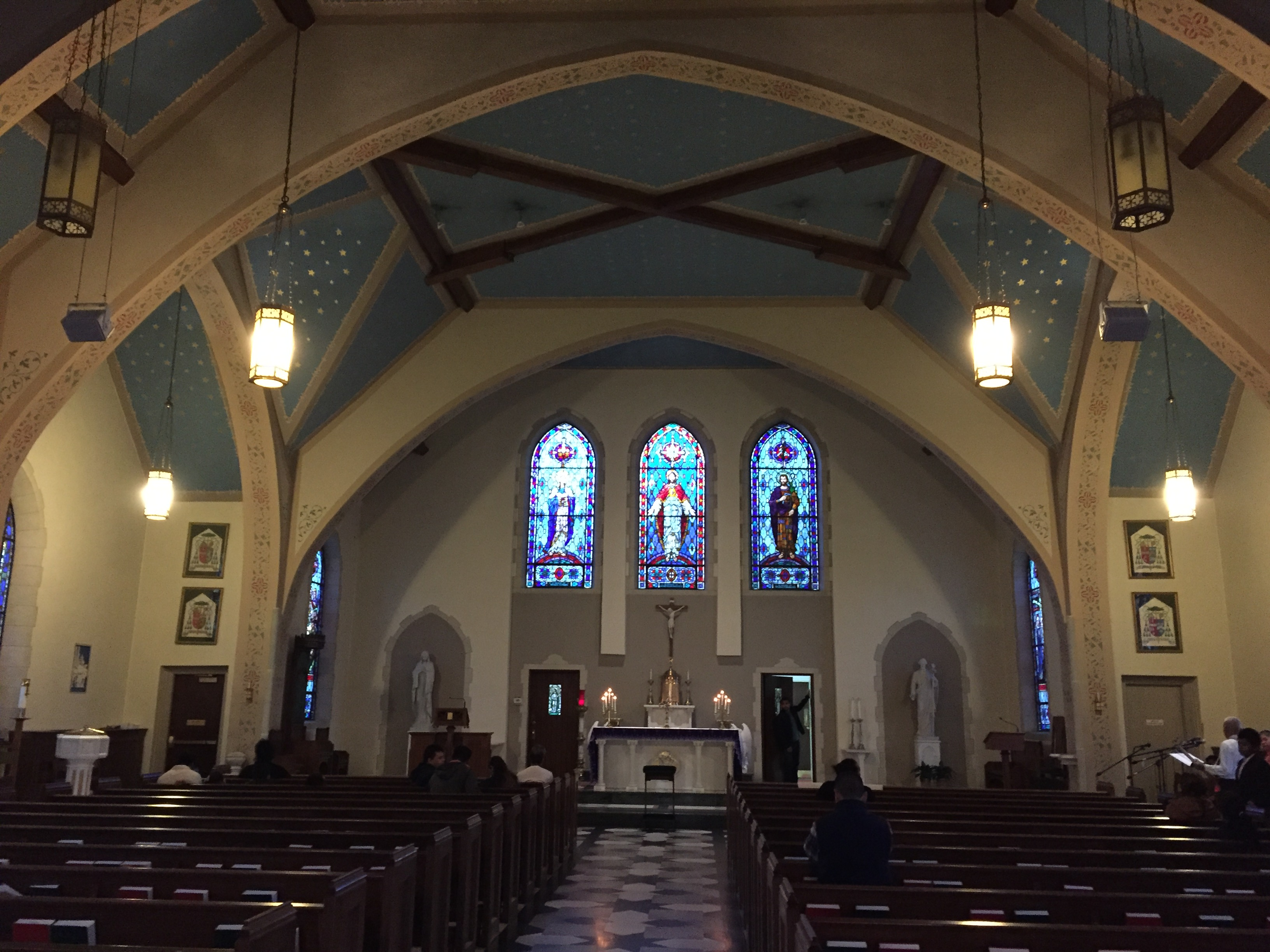 Interior of Sacred Heart Church (formerly cathedral) in Raleigh, North Carolina in 2017